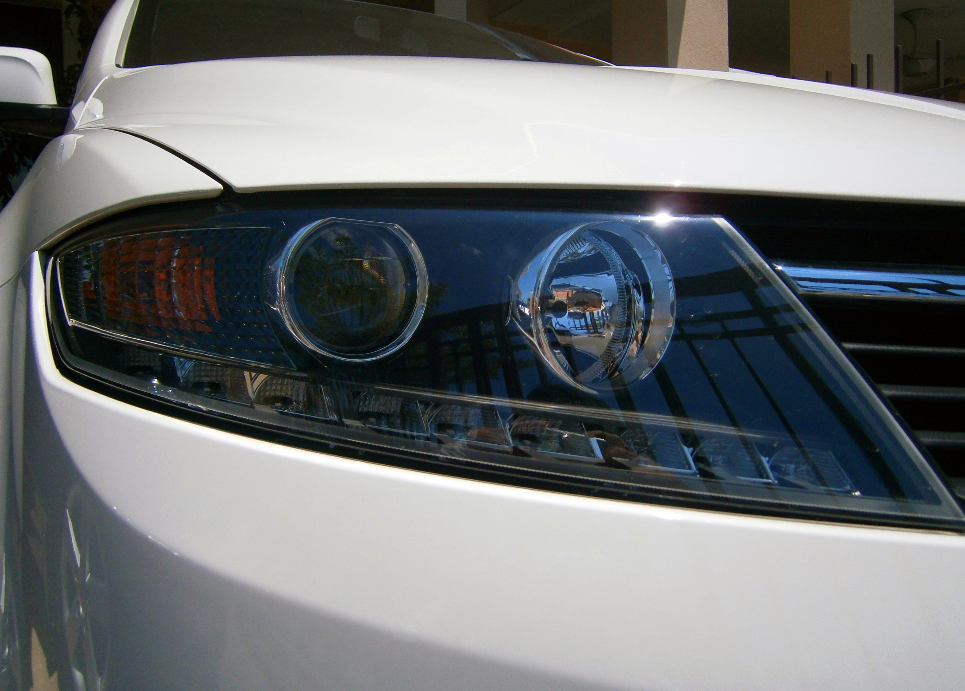 2014 Proton Prevé Executive - Headlights. Designed & Assembled in Malaysia